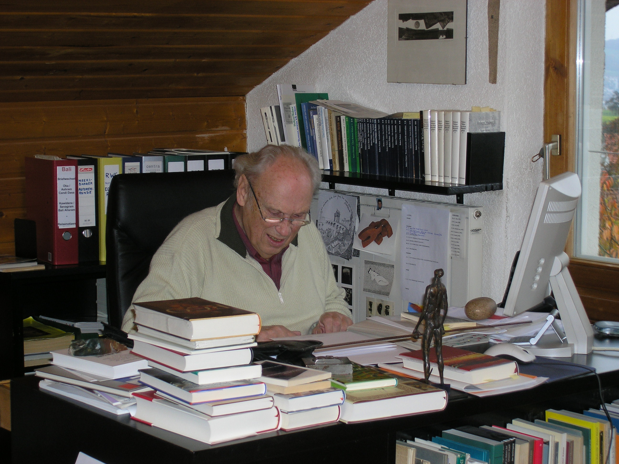 Jochen Greven in seinem Arbeitszimmer in Horn am Bodensee